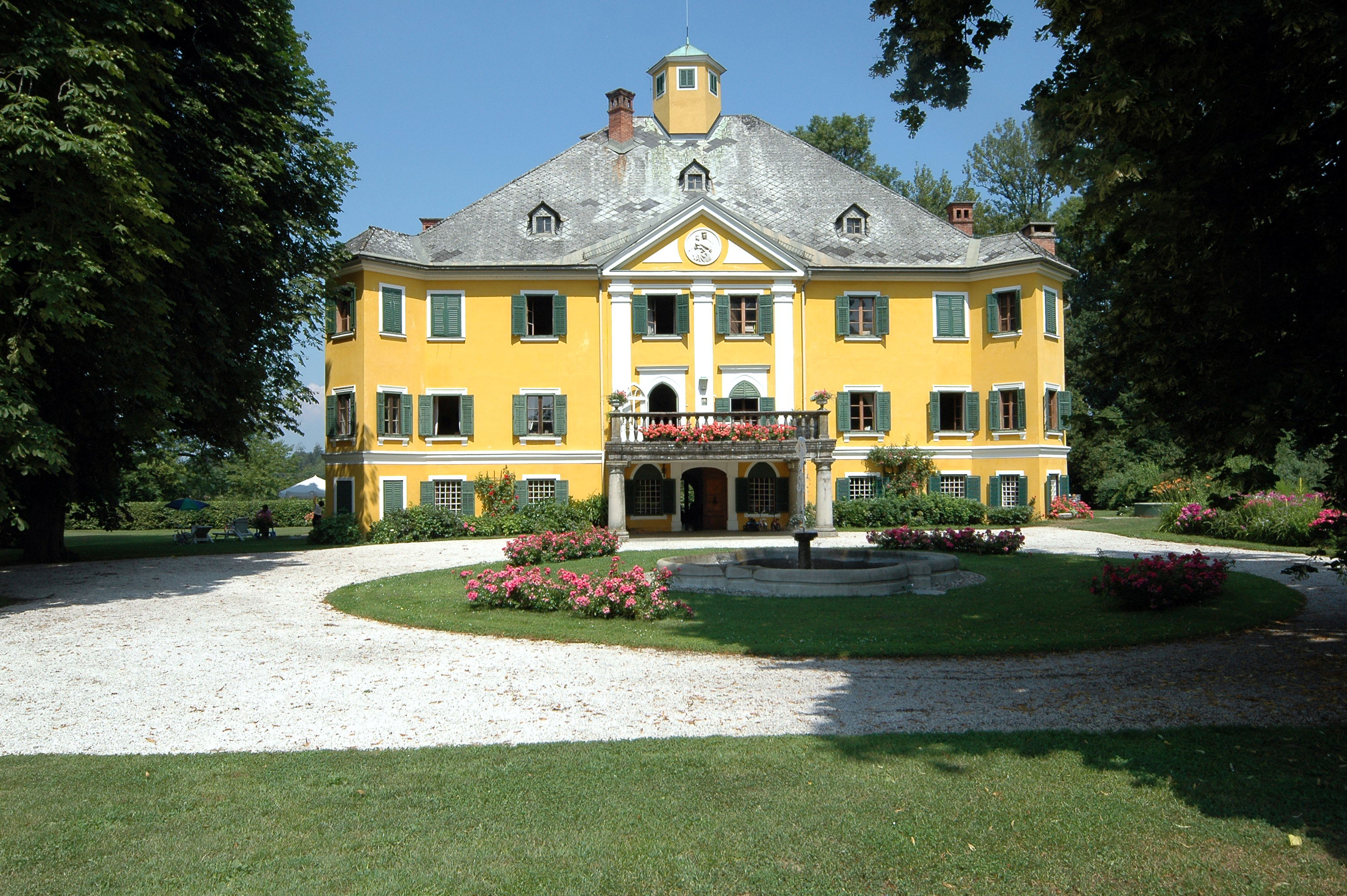 Castle Rain at Rain, market town Grafenstein, district Klagenfurt Land, Carinthia, Austria, EU